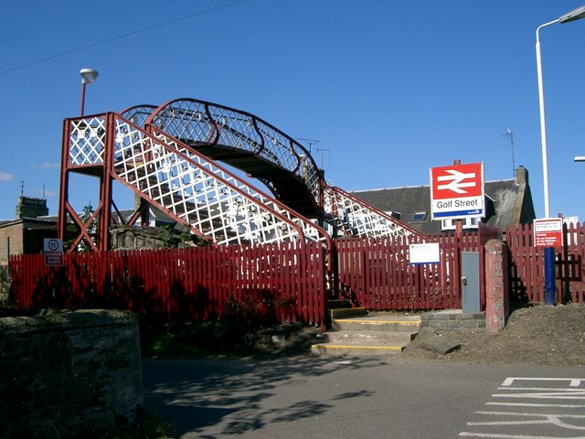 Golf Street railway station, Carnoustie, Angus, Scotland.